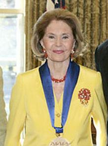 American actress Cyd Charisse. Cropped from the source file.